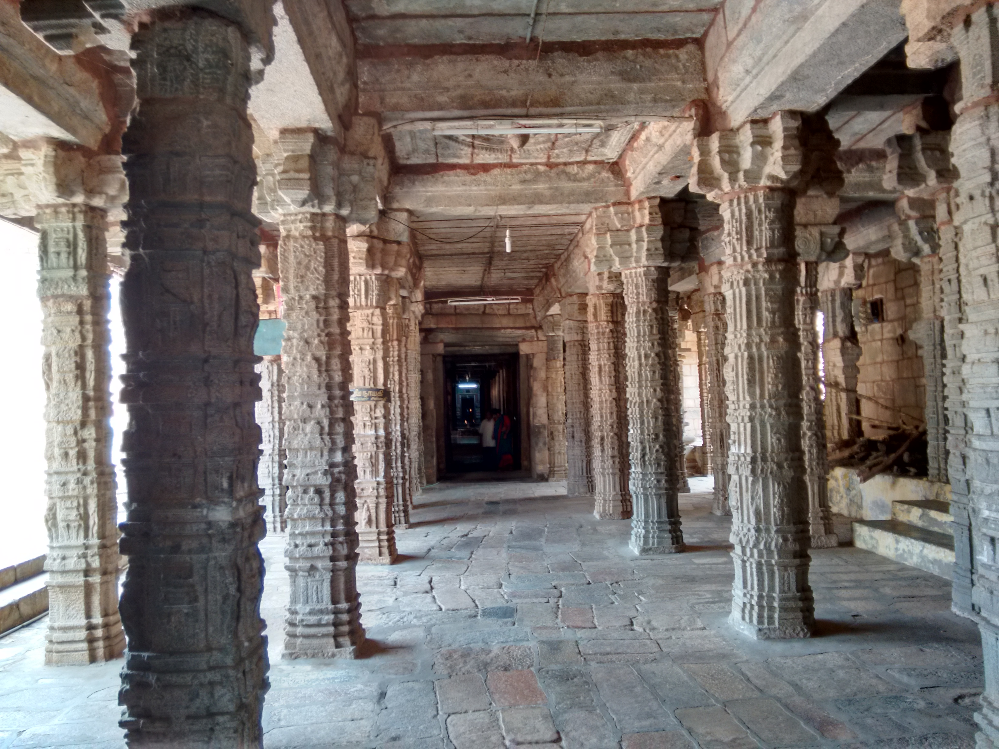 Tiruvalanchuli Kabardeesvara Temple திருவலஞ்சுழி கபர்தீஸ்வரர் கோயில்